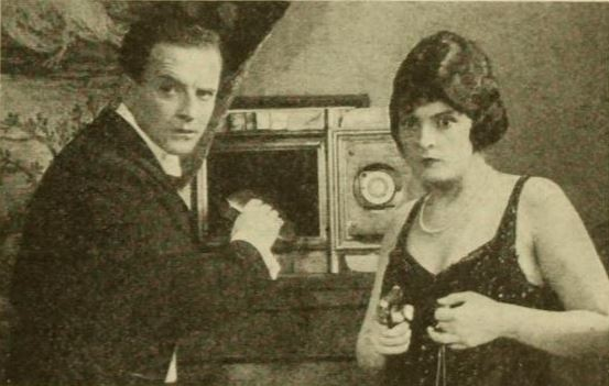 Still from the American crime film Outside the Law (1920) with Wheeler Oakman and Priscilla Dean, on page 53 of the April 1921 Photoplay magazine.